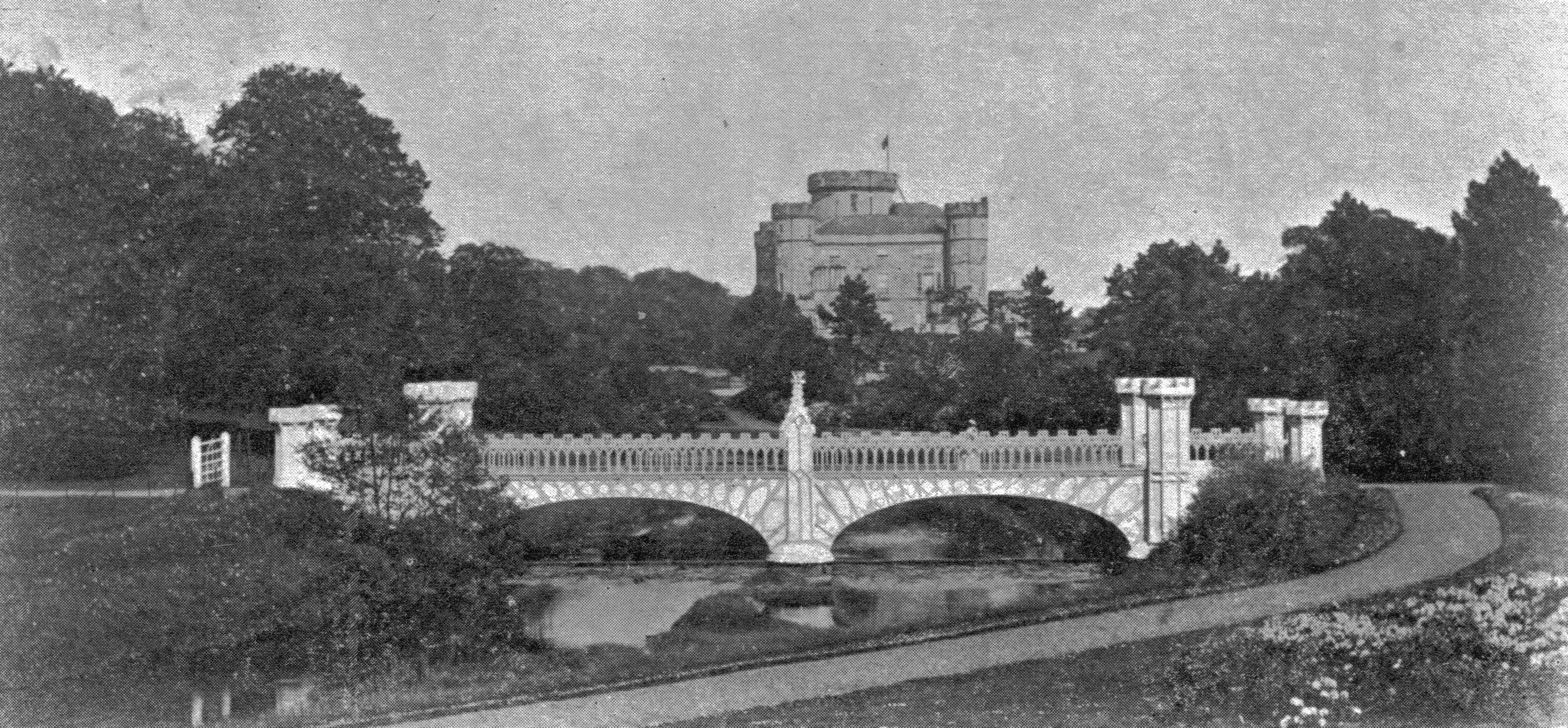 Eglinton Tournament Bridge in 1906. Irvine. Ayrshire. Scotland